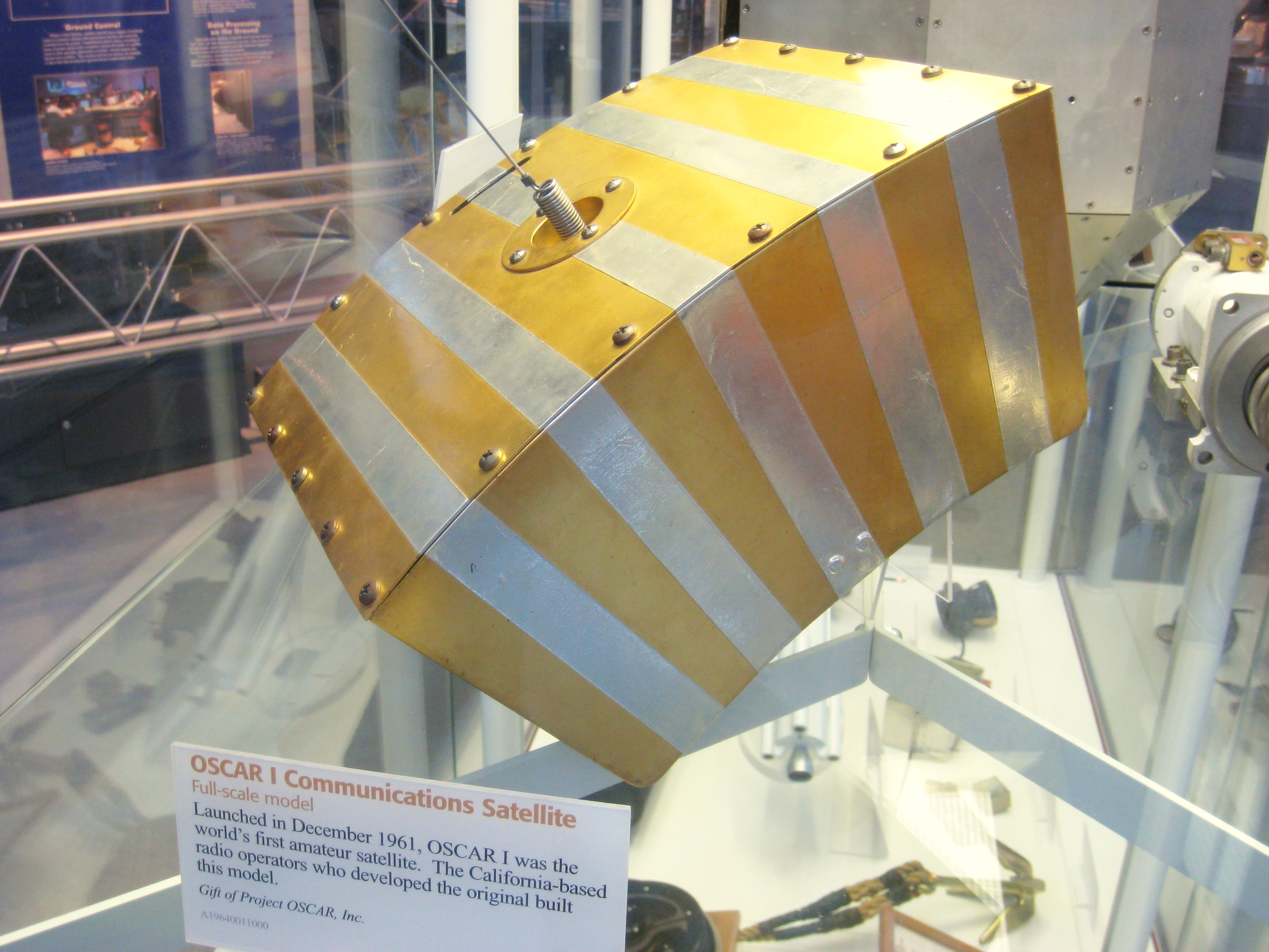 OSCAR 1 Communications Satellite model - Udvar-Hazy Center, Dulles International Airport, Chantilly, Virginia, USA.